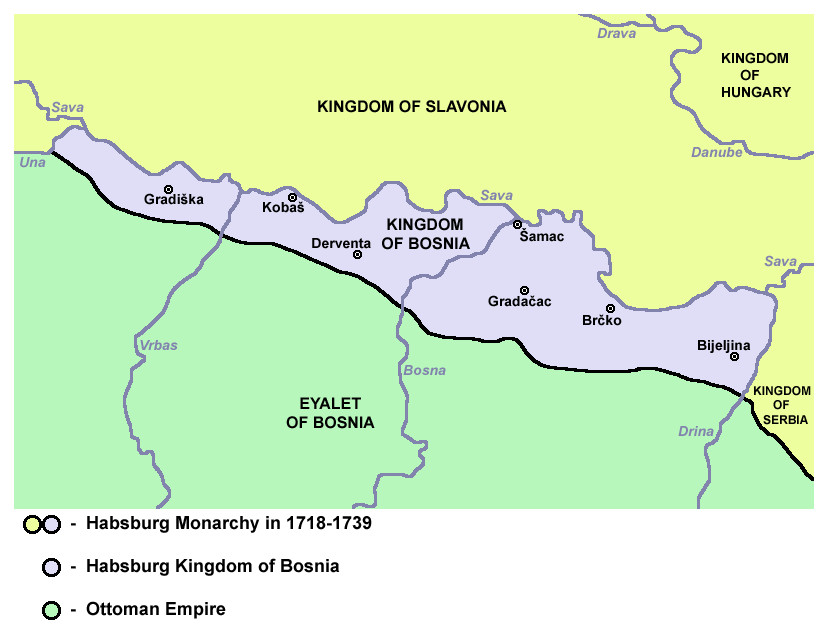 Habsburg Kingdom of Bosnia (1718-1739).